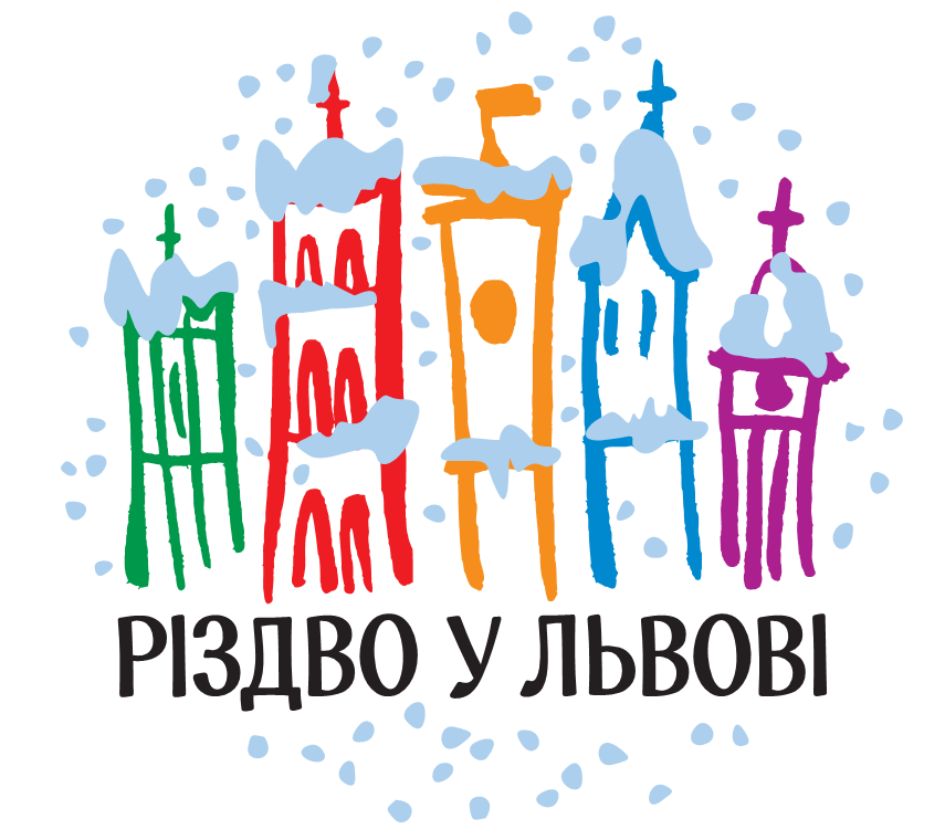 Christmas logo of Lviv